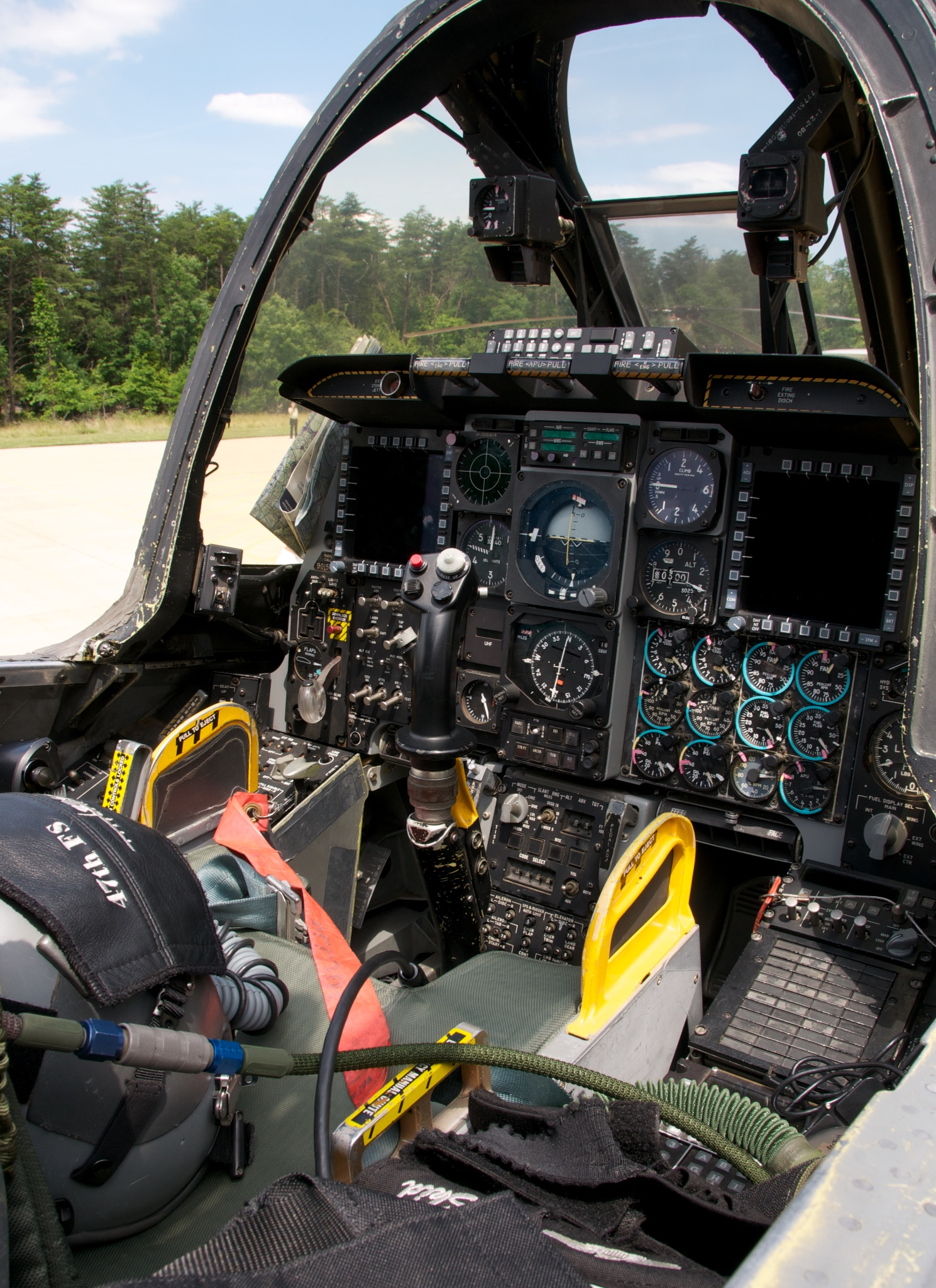 A-10C Warthog cockpit. Seen at the Smithsonian National Air and Space Museum 2012 Become a Pilot Day.